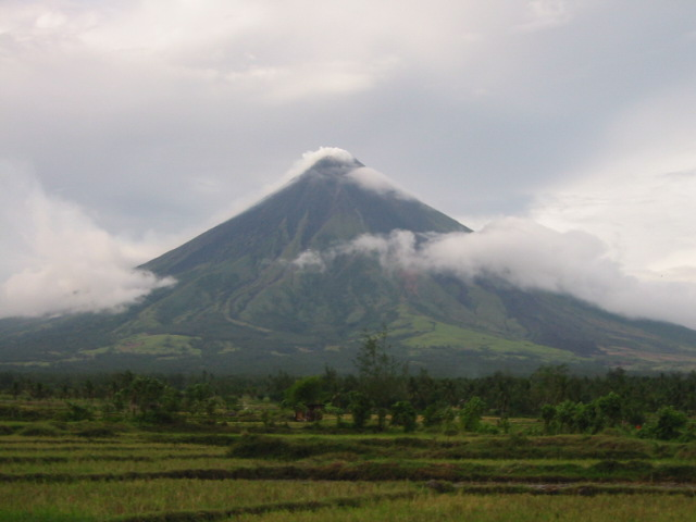 view of Mayon Volcano.